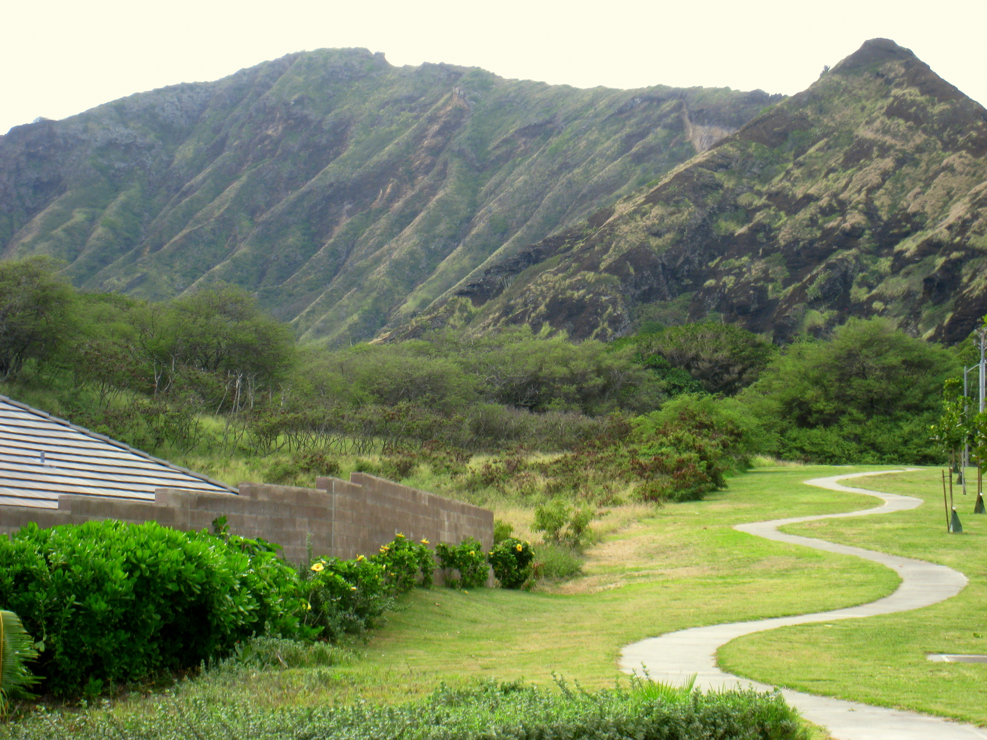 General view - Koko Crater Botanical Garden, Honolulu, Hawaii, USA.